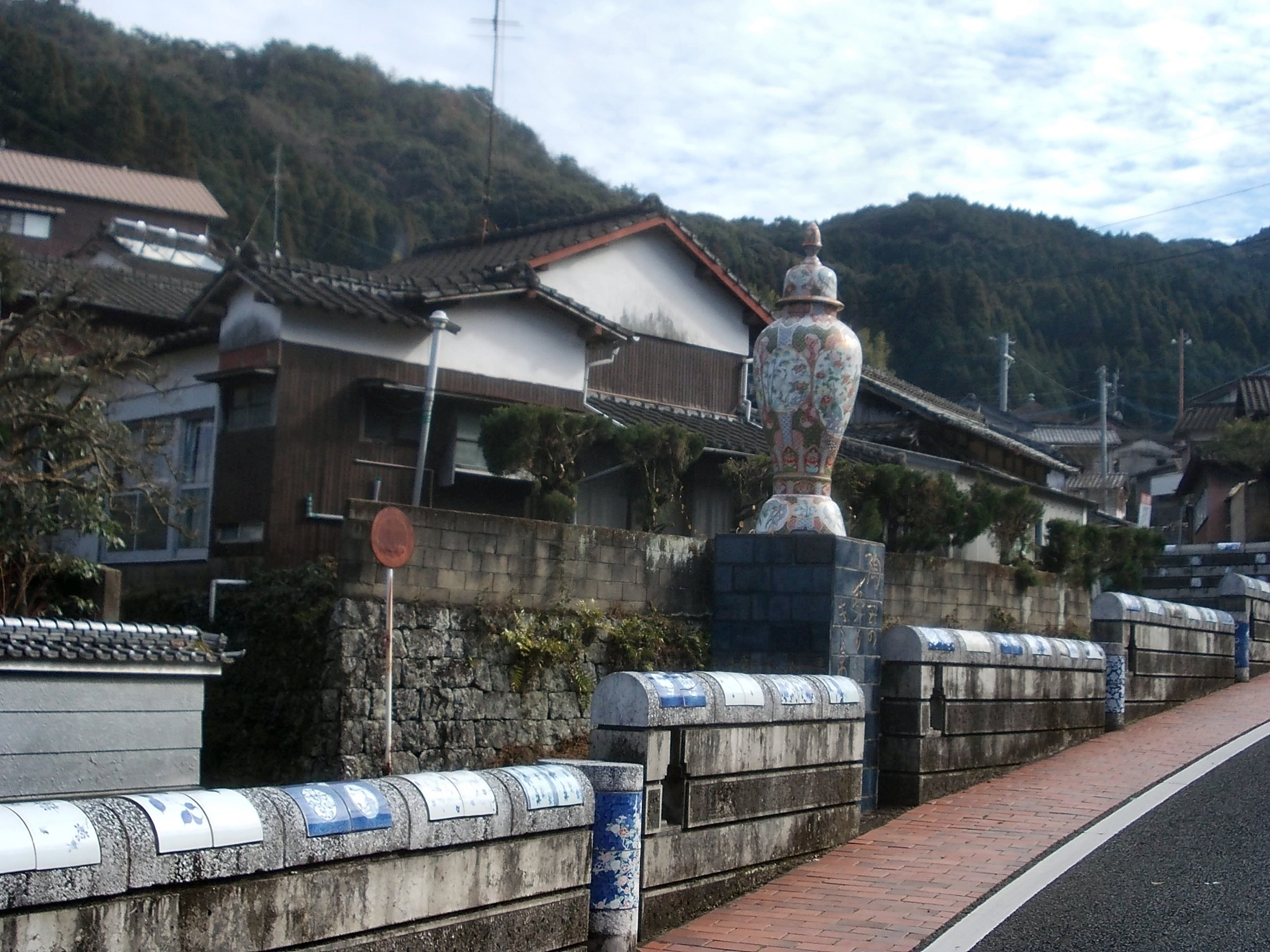 The Nakaogo area of Hasami Town. Most of the kilns are located in this area.